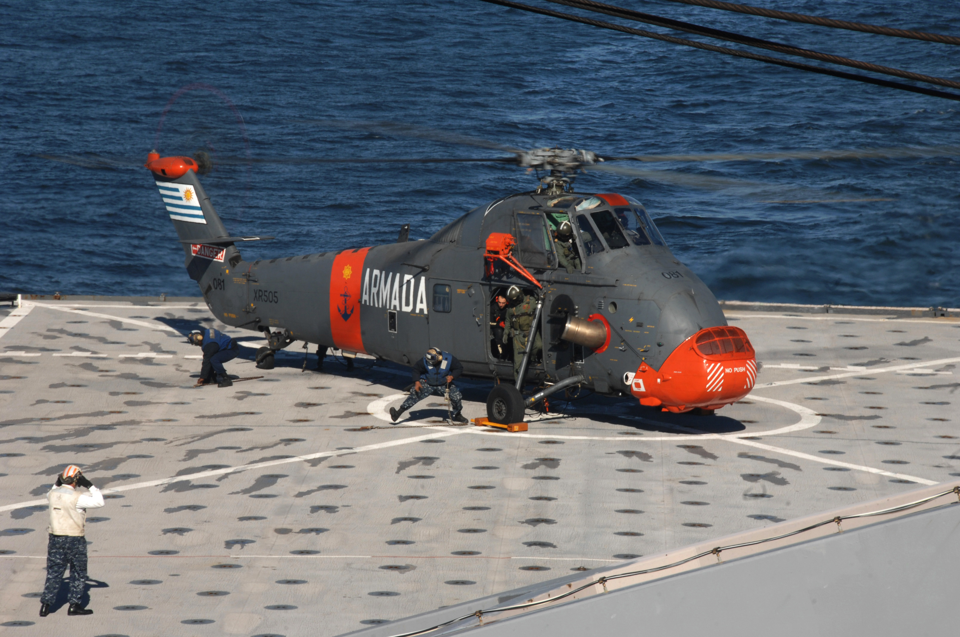 090709-A-8397T-003 ATLANTIC OCEAN (July 9, 2009) Sailors aboard the amphibious dock landing ship USS Oak Hill (LSD 51) secure a Westland Wessex helicopter of the Uruguayan Naval Aviation to the flight deck during flight operations. Oak Hill is participating in Southern Partnership Station '09, a combined naval and amphibious operation with Oak Hill and maritime forces from Argentina, Brazil, Chile, Peru, and Uruguay.